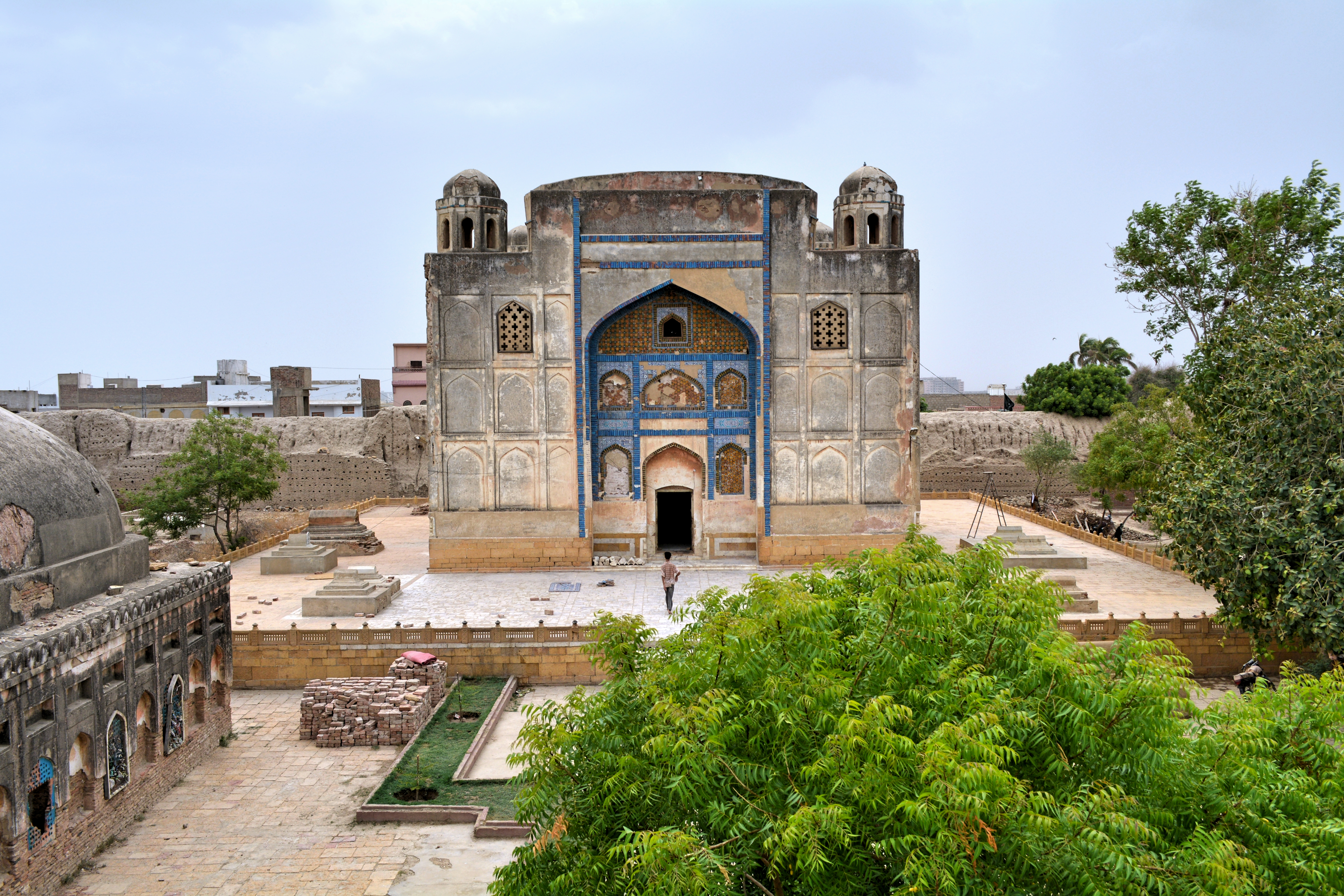 Tomb of Mian Ghulam Kalhoro This is a photo of a monument in Pakistan identified as the SD-15